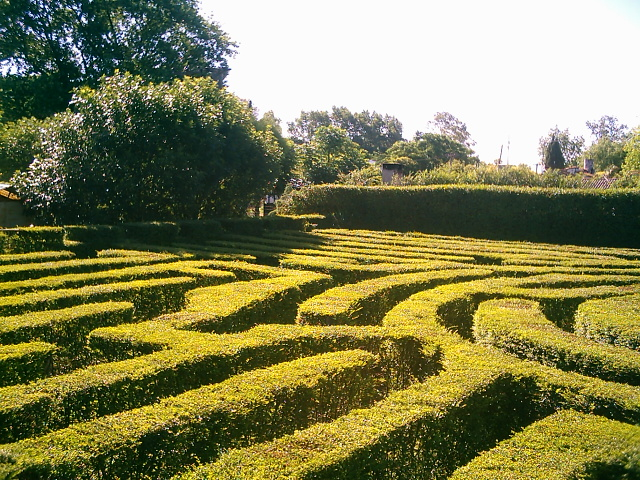 Hedge maze, with 5200 plants, in Escobar, Province of Buenos Aires, Argentina.